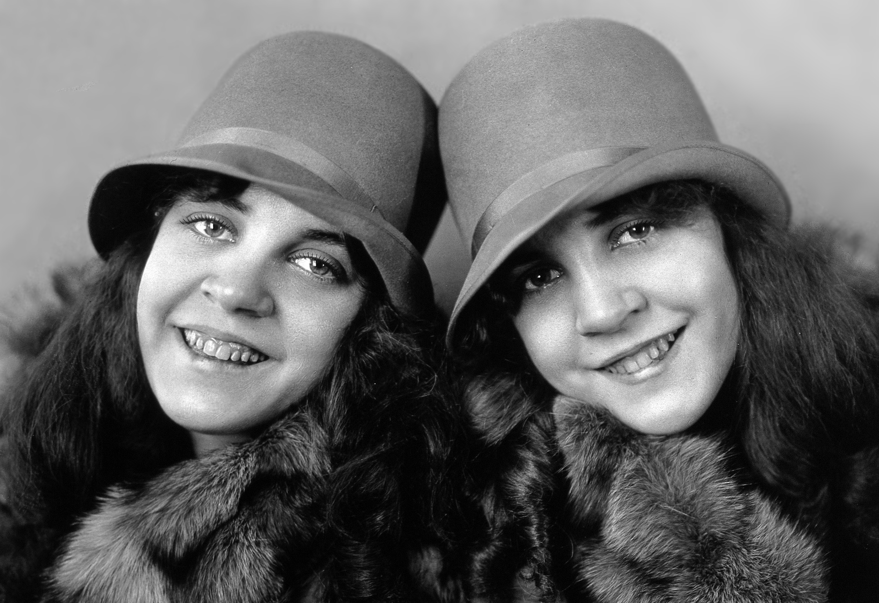 Daisy and Violet Hilton, conjoined twins